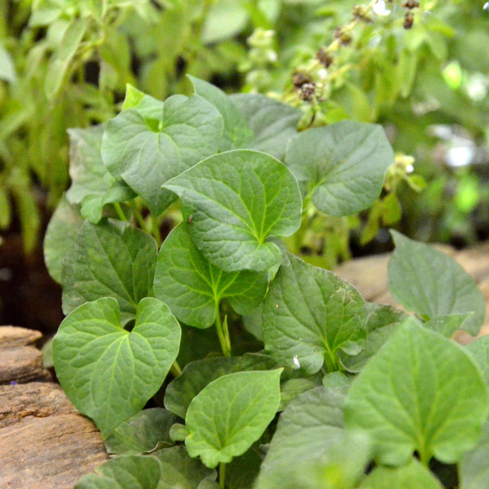 Bai chaplu (Thai script: ใบช้าพลู) are the leaves of the Piper sarmentosum. The slightly bitter leaves are often eaten as a wrap in a Thai dish called miang kham.